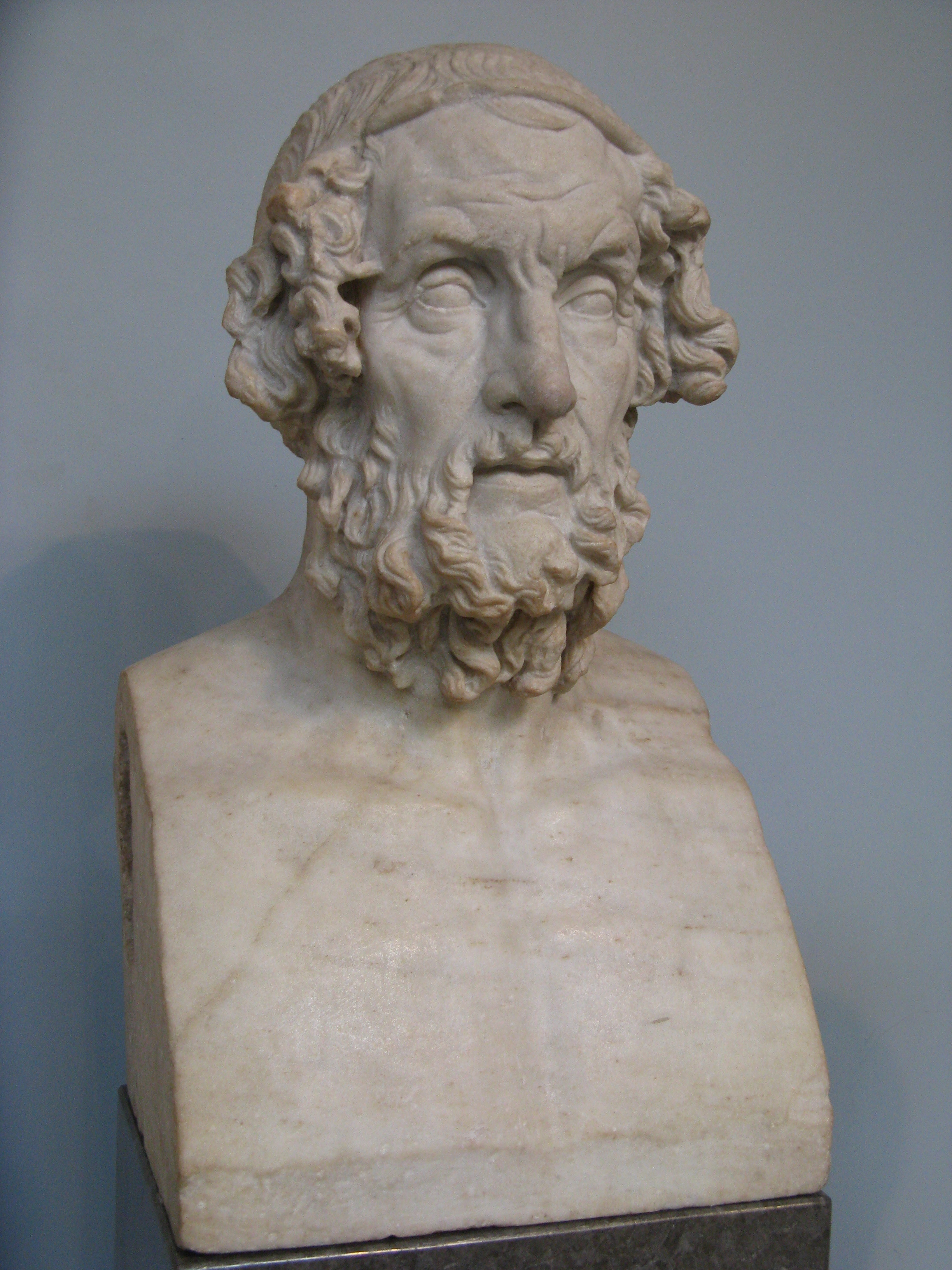 Bust of Homer in the British Museum. Roman copy of a lost Hellenistic original of the 2nd c. BC.